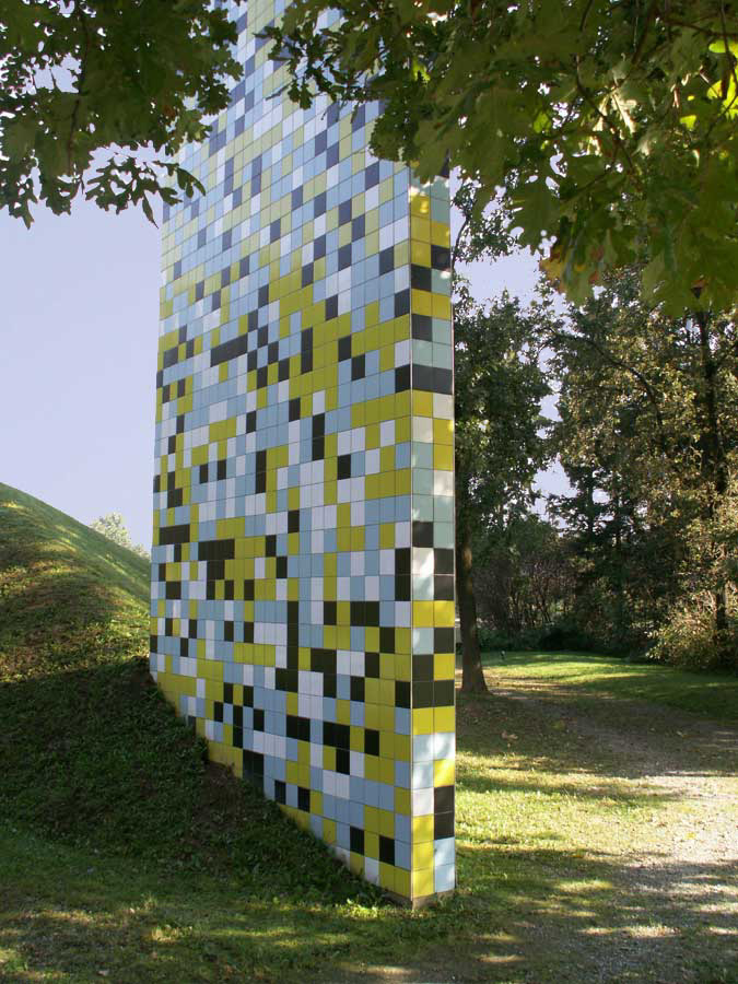 Österreichischer Skulpturenpark, Jörg Schlick, Made in Italy, 2003